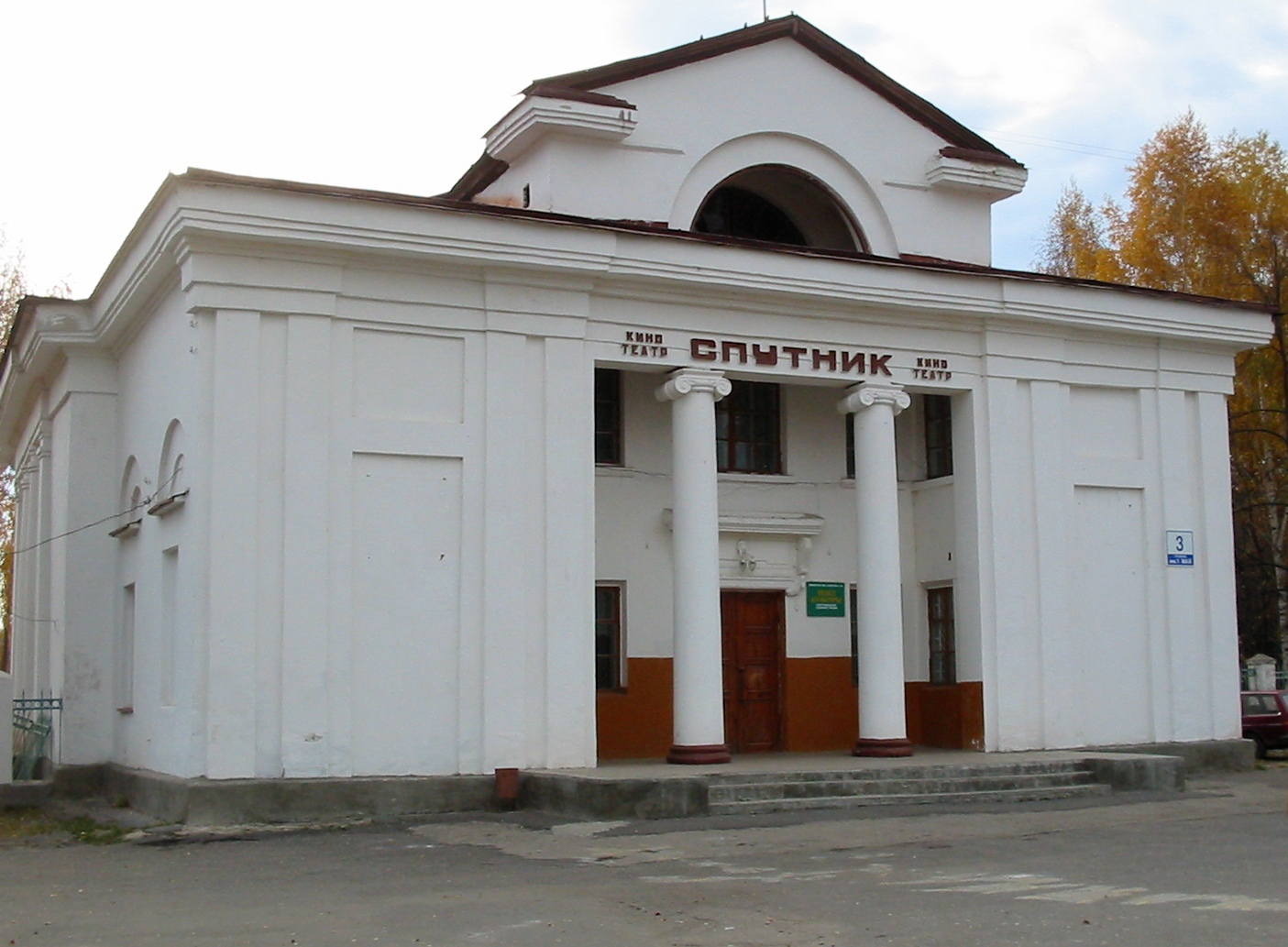 Movie theater «Sputnik» in Sengiley (2005)